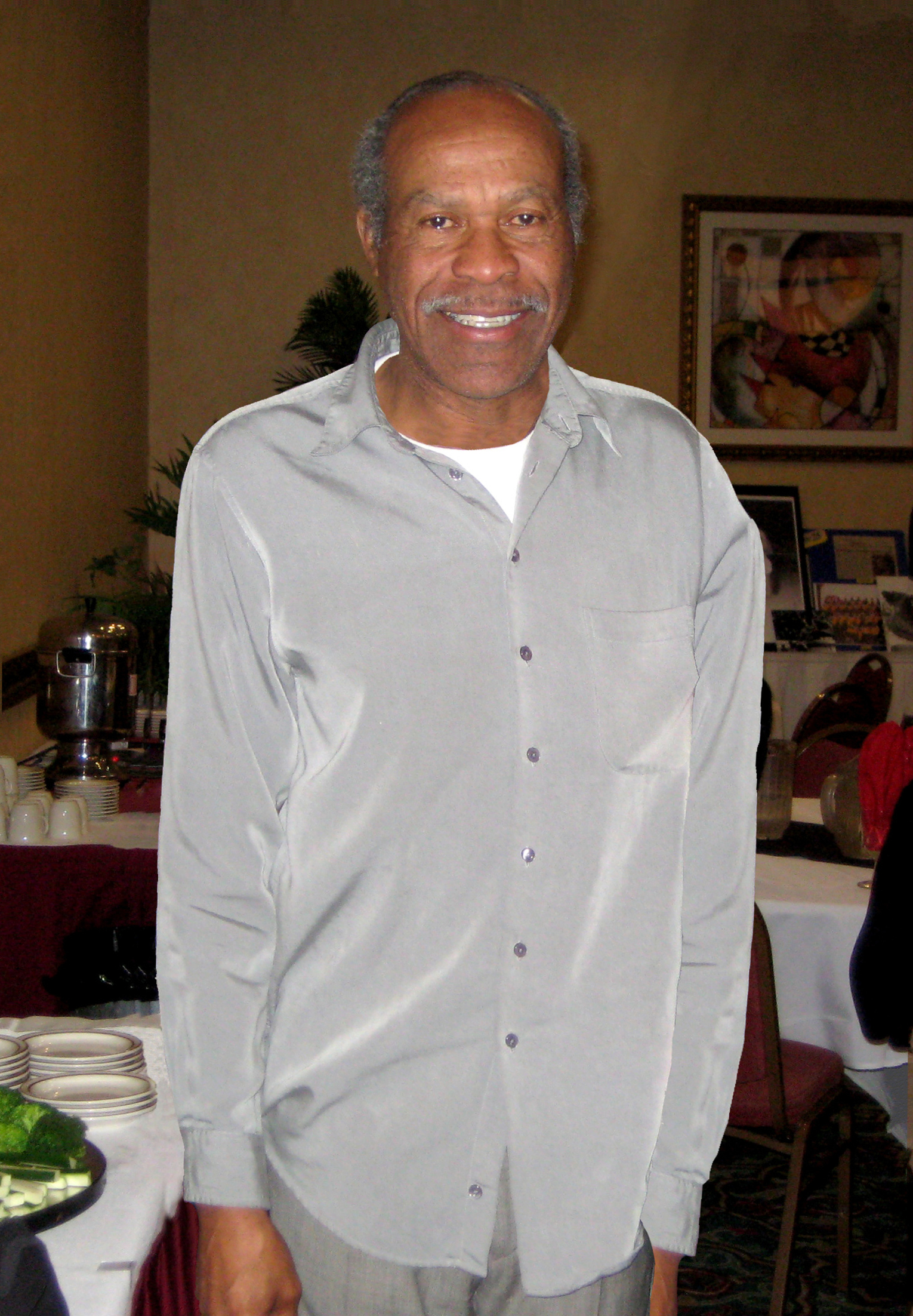 Portrait of Lee Evans